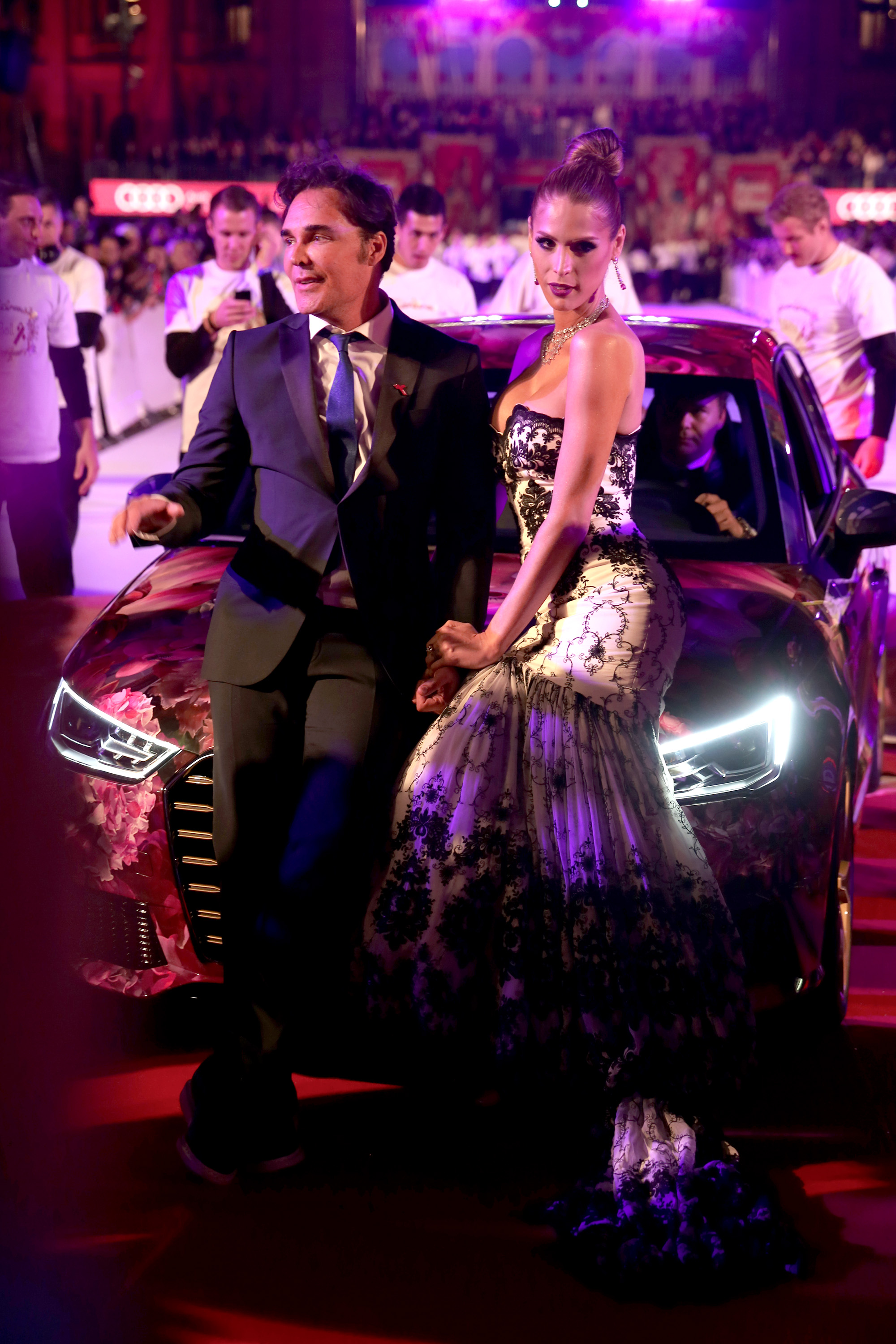 Life Ball 2014: Carmen Carrera and David LaChapelle on the red carpet on the square in front of the Rathaus (Town Hall) of Vienna, Austria.